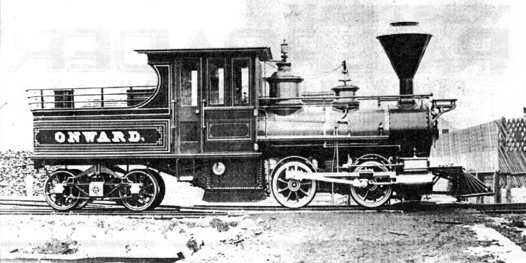 Photo of William Mason's 'Onward' in early 1872, later renamed and sold to American Fork Railroad (Arthur W Wallace Collection)